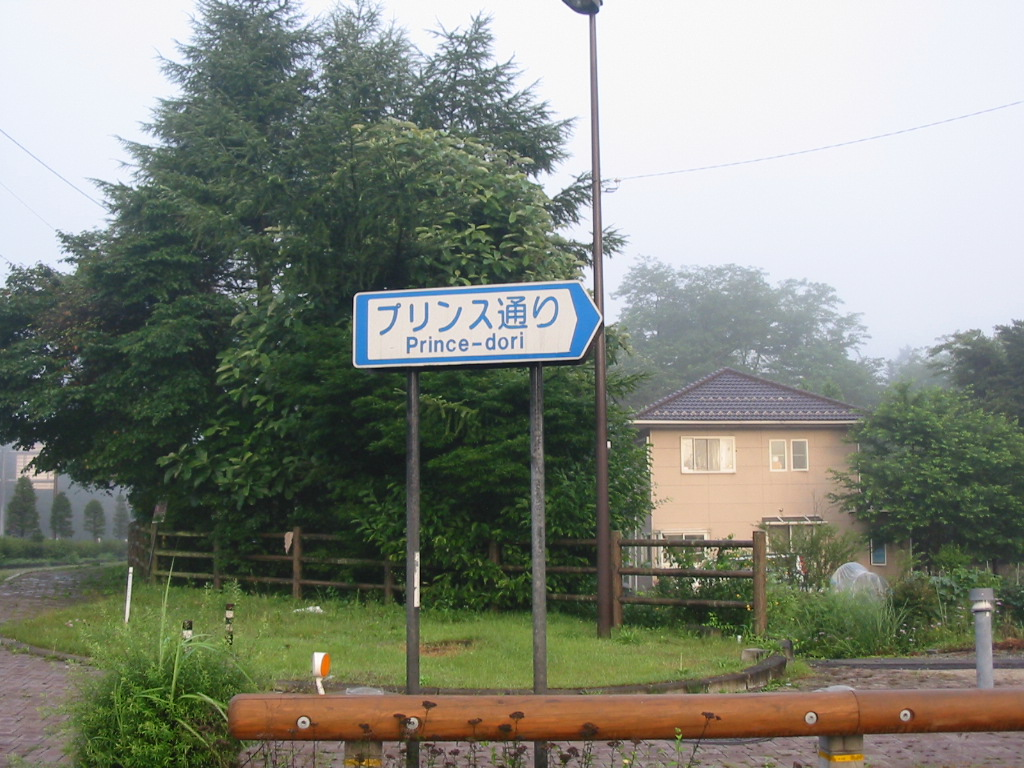 Prince-dori (Prince Street) in Karuizawa Town, Nagano Prefecture, Japan